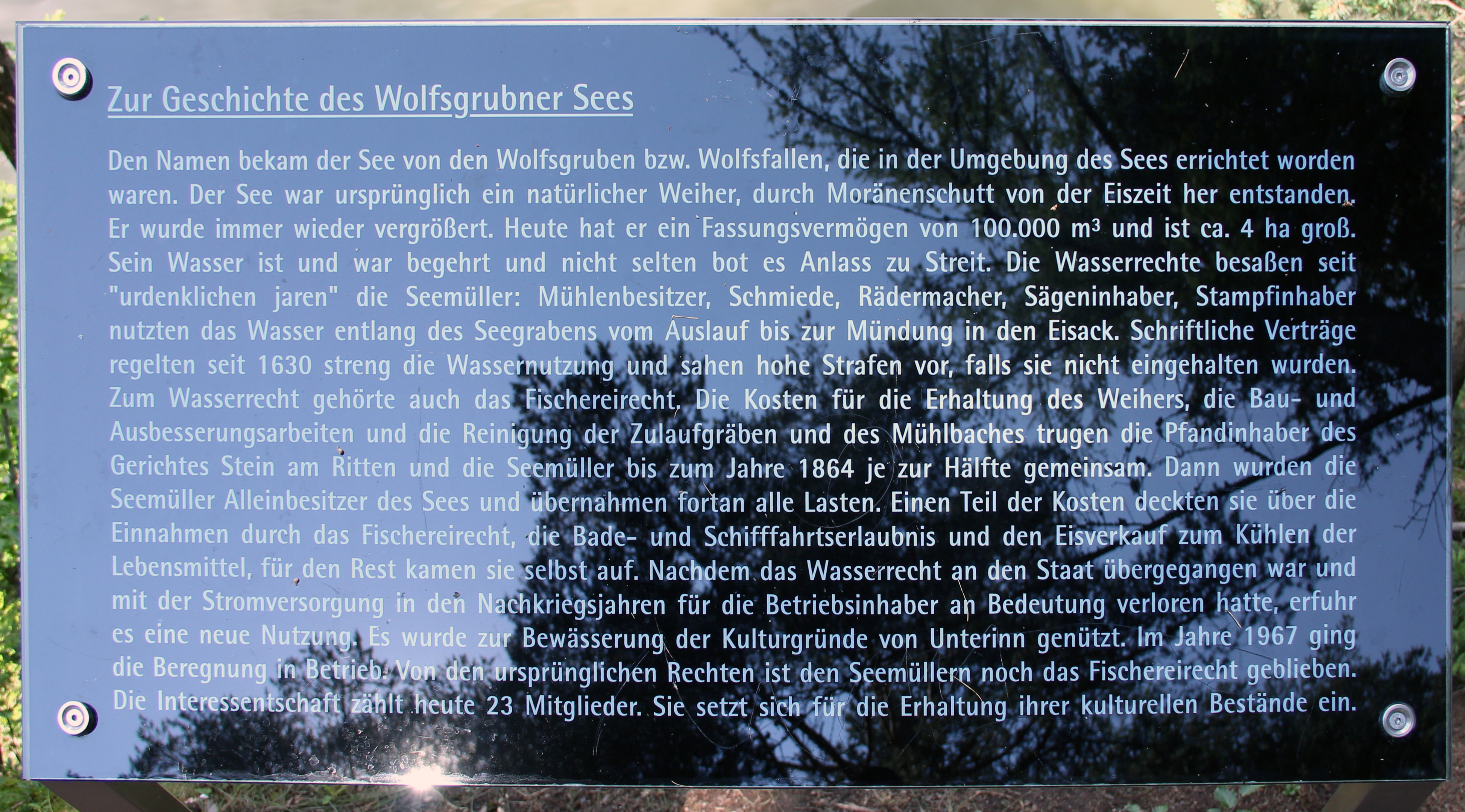 Memorial plaque, Wolfsgrubner See, Seestraße, Wolfsgruben (Ritten), Italy